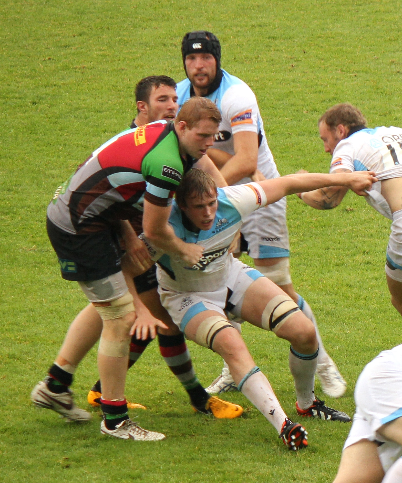 Jonny Gray (among others) representing Glasgow Warriors against Harlequins